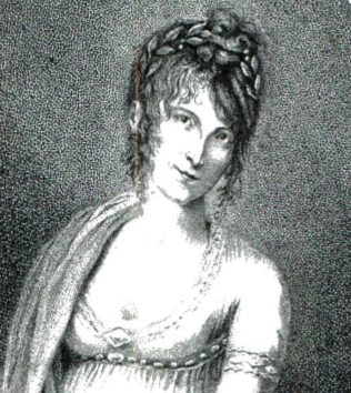 Portrait of Elisabetta Gafforini, Italian opera singer (Lisbon, Portugal, 1804)